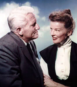 Publicity image for the 1957 film Desk Set, featuring Spencer Tracy and Katharine Hepburn. Such images were taken by a studio photographer, and then disseminated to the media and the public to promote the film (see Film still). This is definitely an image taken to promote the film, as they are dressed as the characters (see, for instance, this screenshot from the film, where they are wearing the same clothes.) Another image from the same photoshoot can be seen here. Tracy and Hepburn did not pose for images together unless it was to promote a film. Public domain explanation With regards to publicity images, Eve Light Honthaner writes in The Complete Film Production Handbook, (Focal Press, 2001 p. 211.): "Publicity photos (star headshots) have traditionally not been copyrighted. Since they are disseminated to the public, they are generally considered public domain, and therefore clearance by the studio that produced them is not necessary." Gerald Mast, in Film Study and the Copyright Law (1989) p. 87, has written: "According to the old copyright act, such production stills were not automatically copyrighted as part of the film and required separate copyrights as photographic stills ... Most studios have never bothered to copyright these stills because they were happy to see them pass into the public domain, to be used by as many people in as many publications as possible." If the image was copyrighted, the copyright would have had be be renewed in 1985 (28 years after publiciation, as stated by the 1909 Copyright Act, which was law until 1978). A search for the term "Desk Set" with The United States Copyright Office reveals that the movie has its copyright renewed in this year, but there is no indication that any publicty photographs did. Searching for "Katharine Hepburn" and "Spencer Tracy" also find no evidence that a photograph taken of them in 1957 had its copyright renewed.